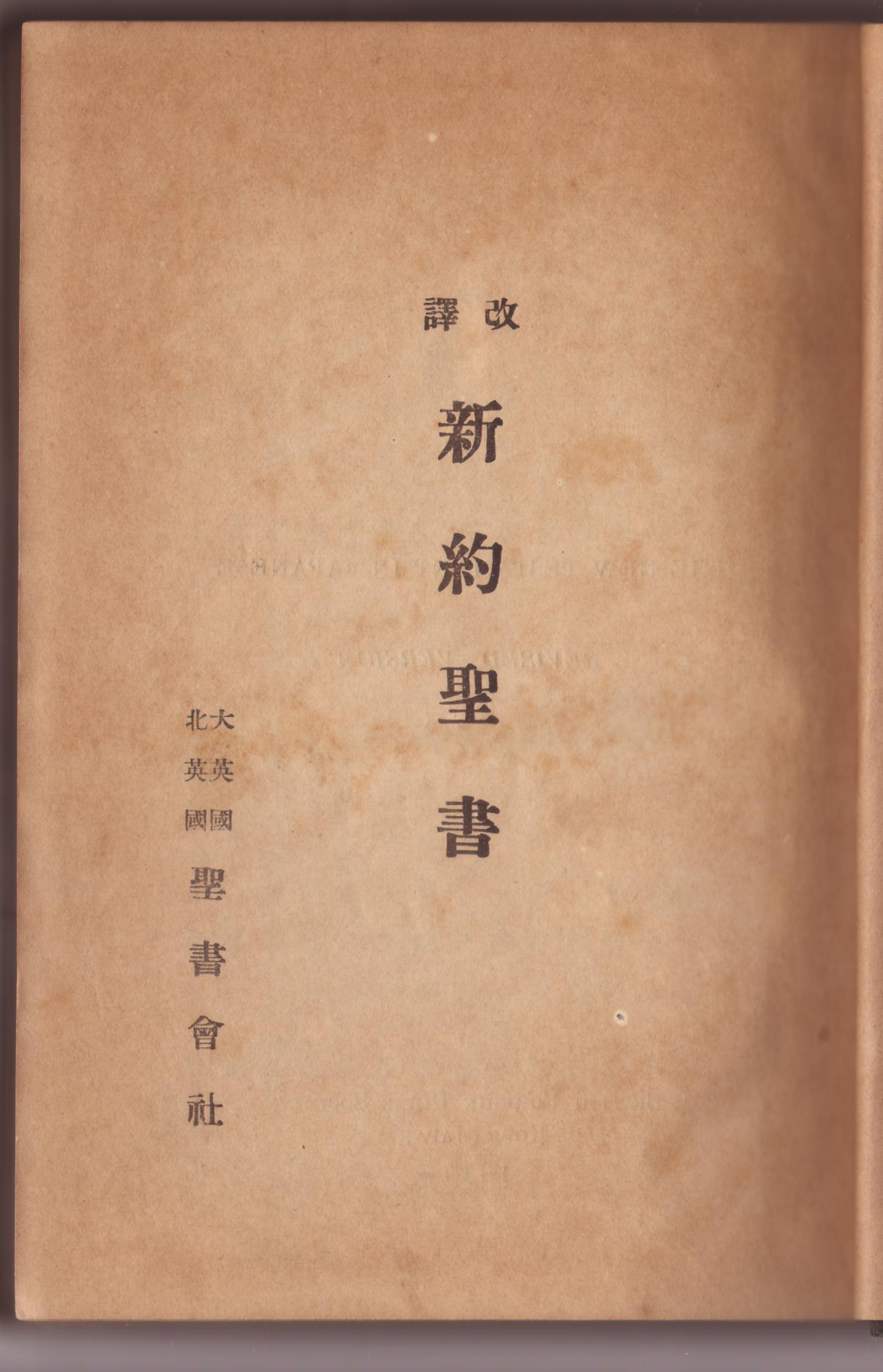 The New Testament, Japanese Revised Version (Taishô-kaiyaku), British Foreign Bible Society, Japan Agency, Kobe, 1917